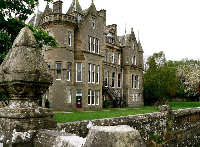 Loch Lomond Youth Hostel. View of the Hostel from the Loch side.